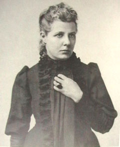 Photo of Annie Wood Besant from the 1880s